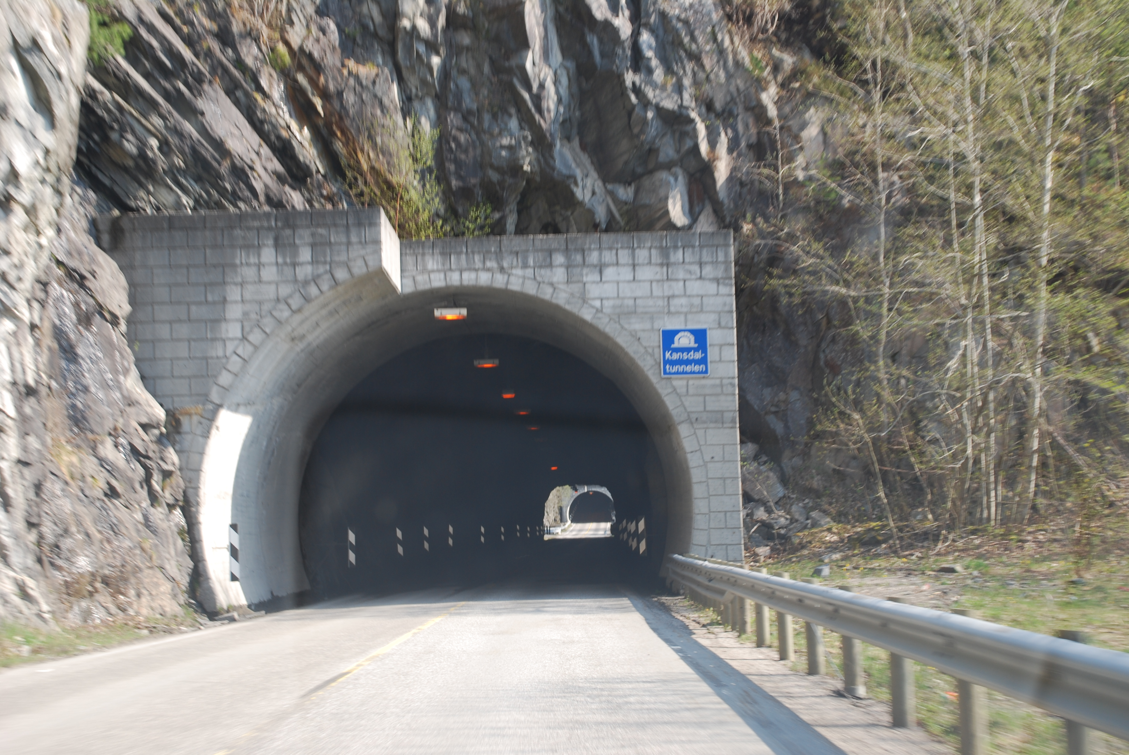 Northern entrance of the road tunnel Kansdaltunnelen on Riksvei 70 in Møre og Romsdal, Norway.